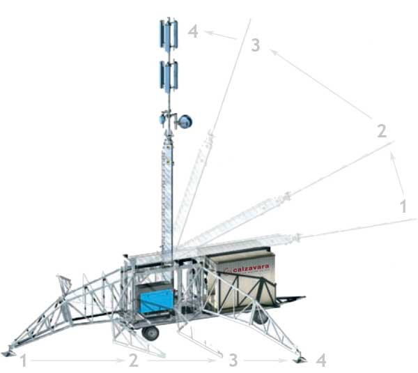 Cell on wheels mounting scheme